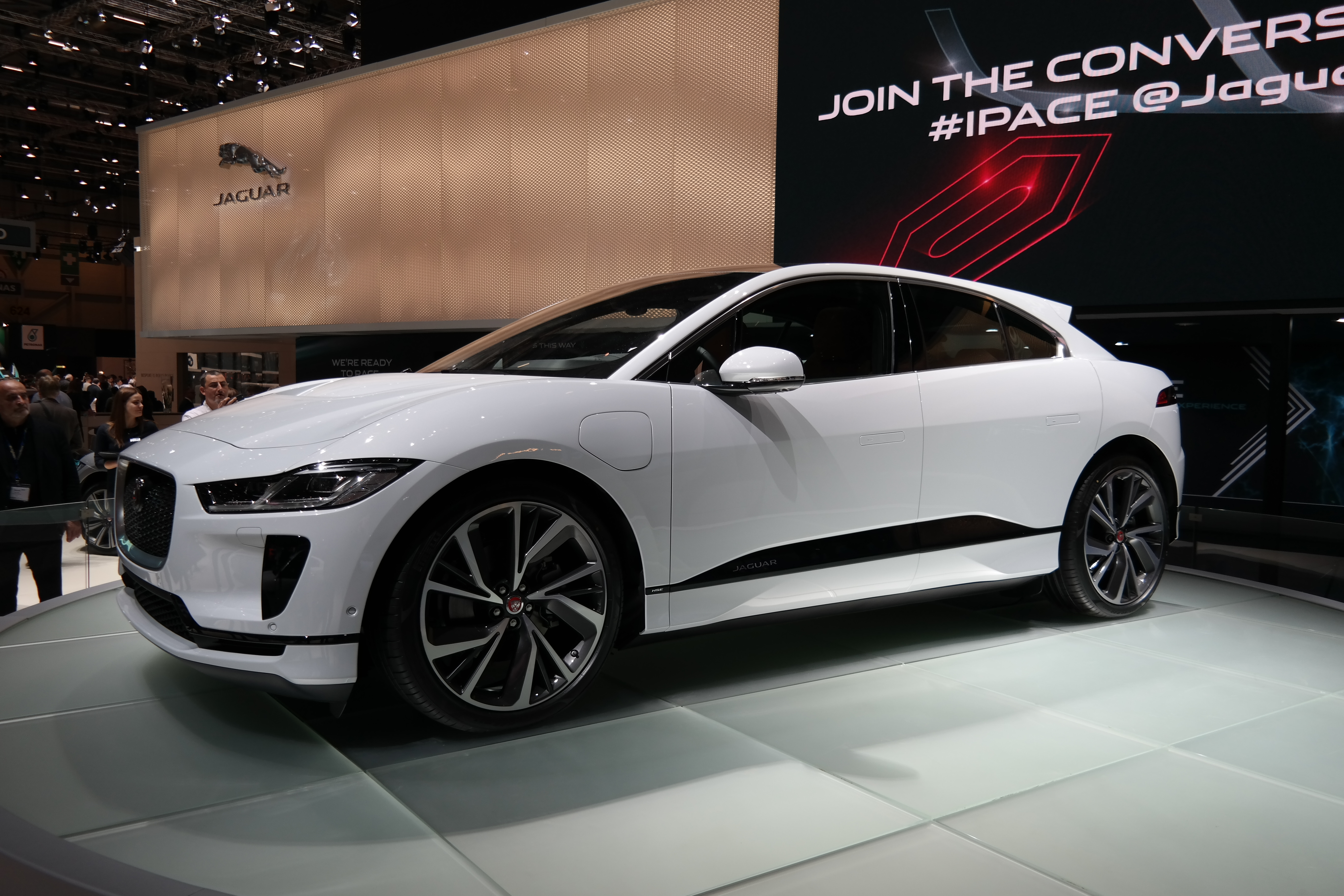 Geneva Motor Show 2018 (photo taken on the first press day)